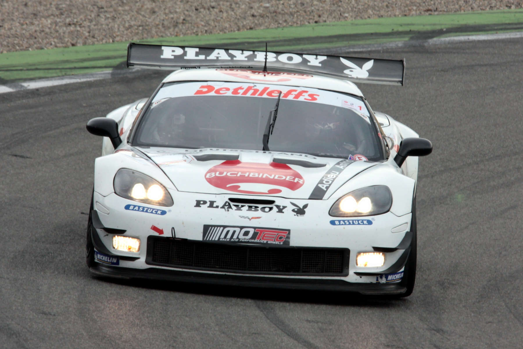 Sven Hannawald driving a Chevrolet Corvette Z06.R GT3 at DMV Touring Car Championship's Stuttgarter Rössle race